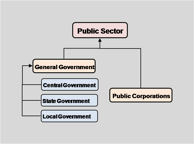 Structure of the Public Sector